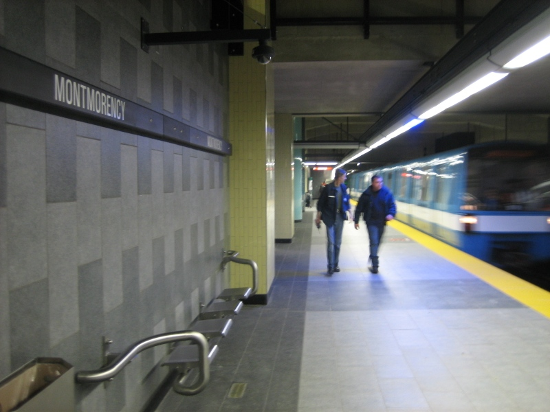 A metro train arrives at Montmorency station in Laval.